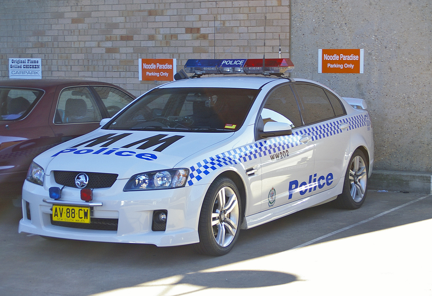 New South Wales Police Force Holden Commodore SS